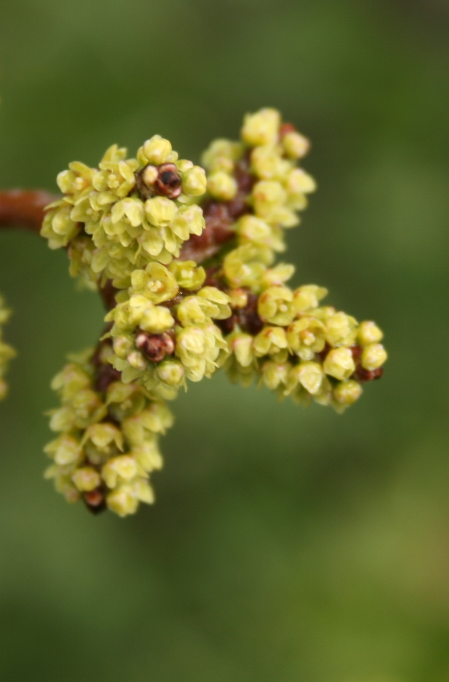 Rhus aromatica: Flower clusters.